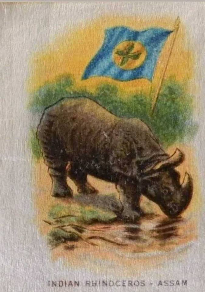 A cigarette card of 19th Century showing the Assam Flag during 2nd term of Purandar Singha.